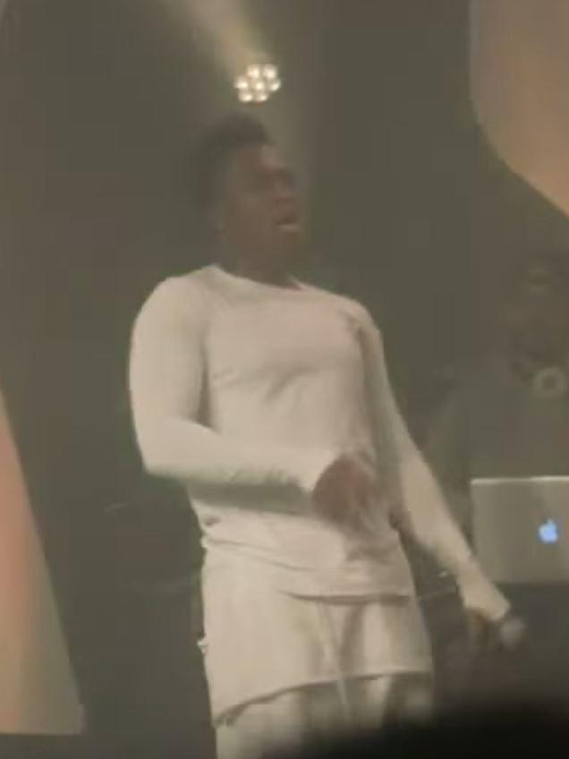 Cropped video still of KSI performing at O2 Academy Islington in 2016